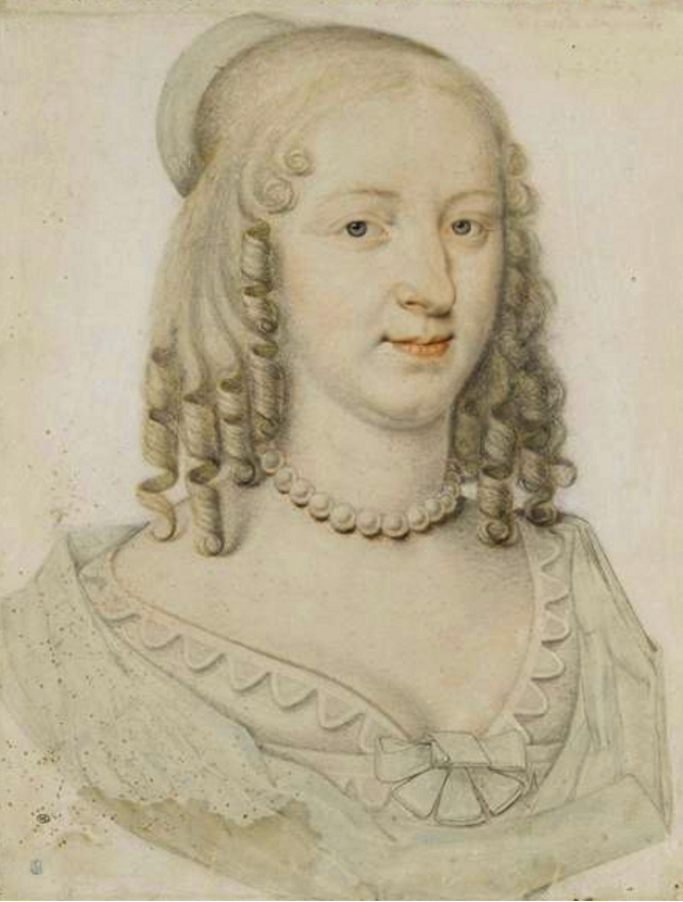 Louise de Bourbon, Mademoiselle de Soissons as Duchess of Longueville by Dumonstier